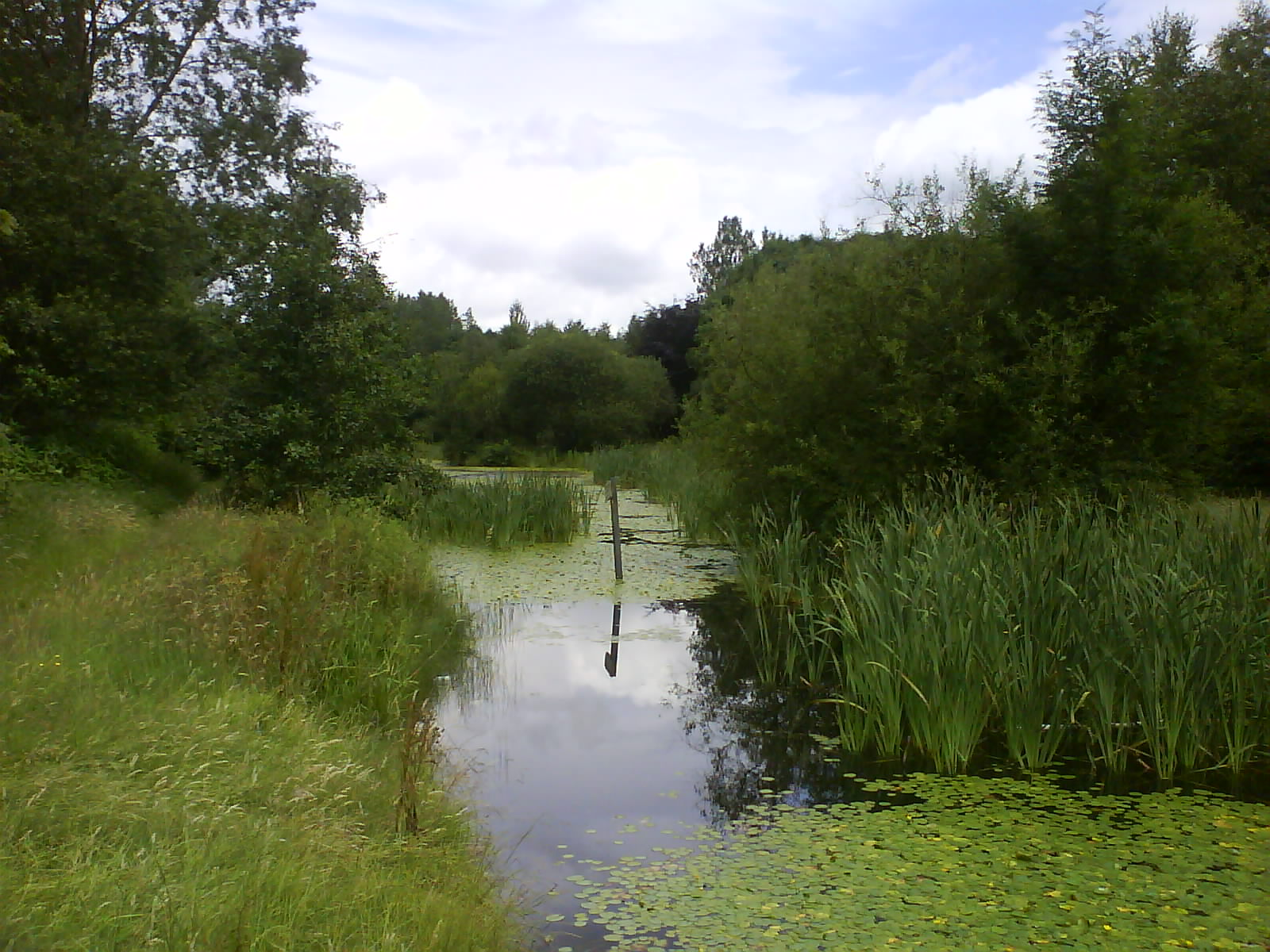 View from the small bridge over the reservoir in Drinkwater Park in August